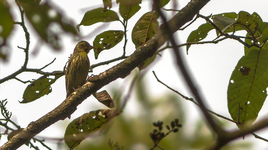 The species Tibetan Siskin had been photographed from Khangchendzonga Biosphere Reserve during the birding trip of GoingWild in West Sikkim, India on 21.02.2016.